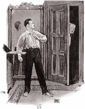 Illustration of the Sherlock Holmes short story The Beryl Coronet, which appeared in The Strand Magazine in May, 1892. Original caption was "AT MY CRY HE DROPPED IT."